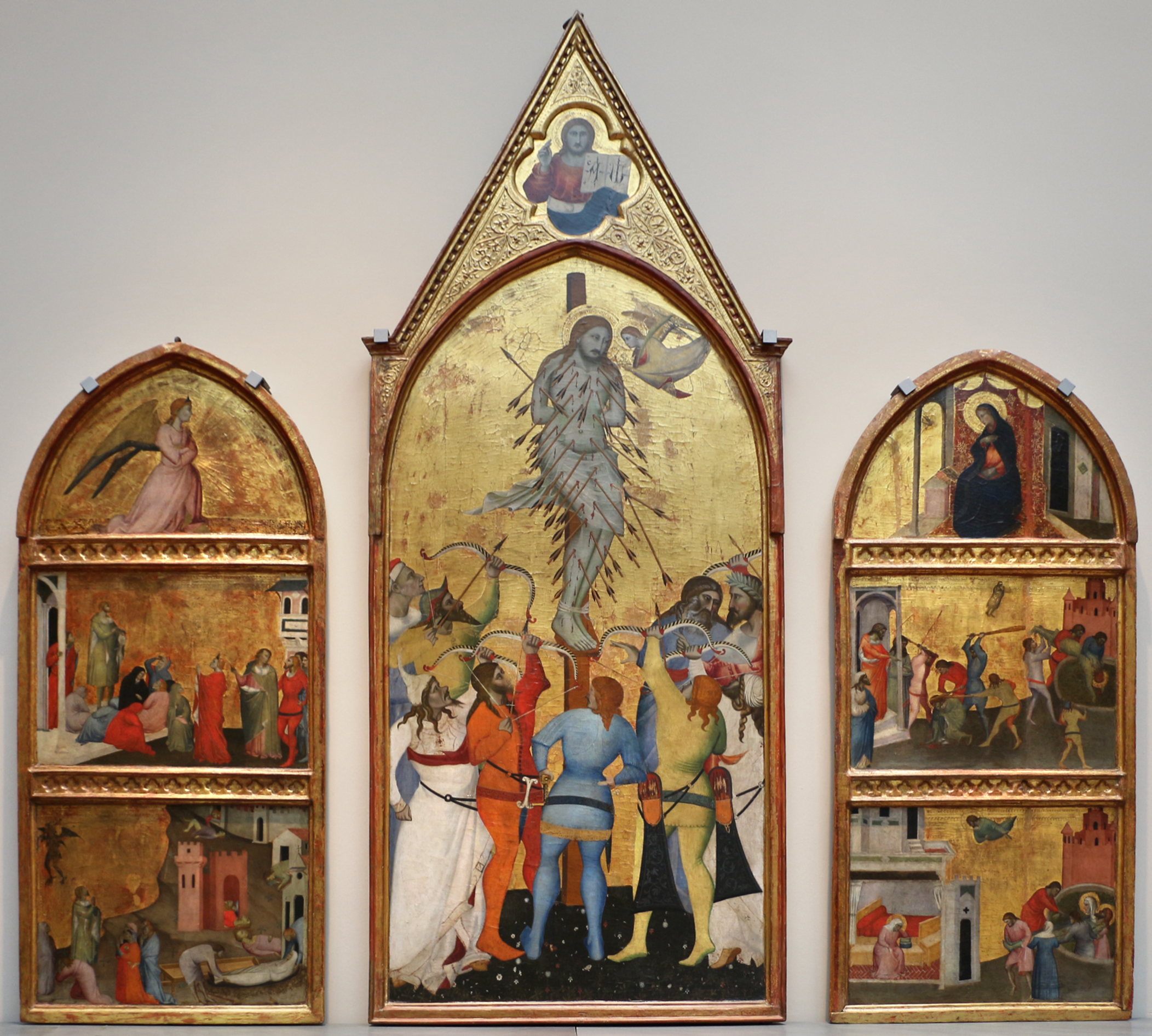 Triptych of Saint Sebastian by Giovanni del Biondo